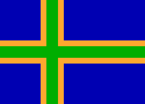 I, the author of this image, release it to the public domain.